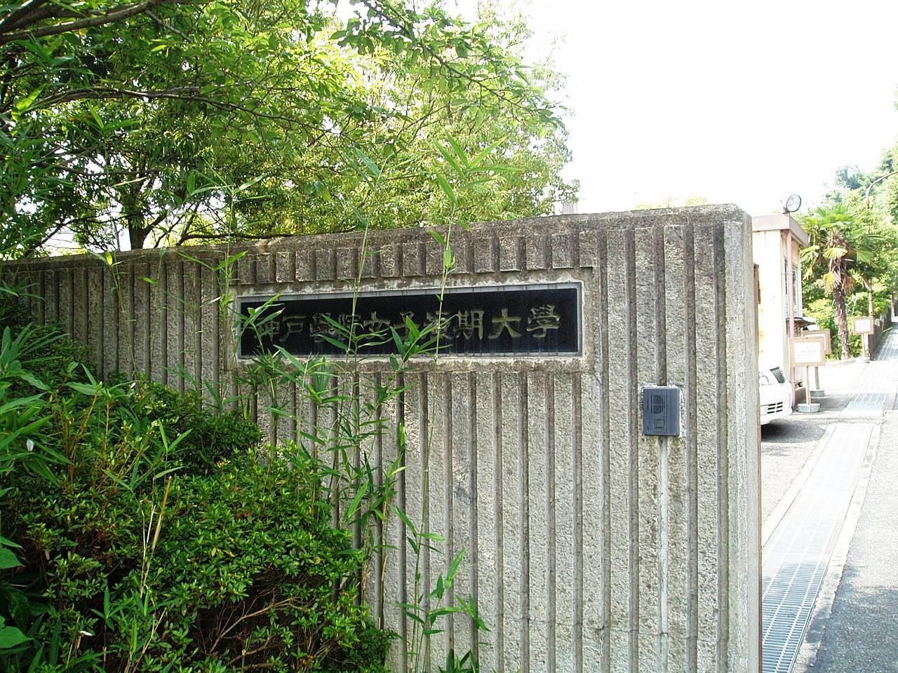 Nameplate of Kobe Gakuin Women's College (integrated into Kobe Gakuin University in 2005), located in Hayashiyama-cho, Nagata-ku, Kobe, Hyogo, Japan.